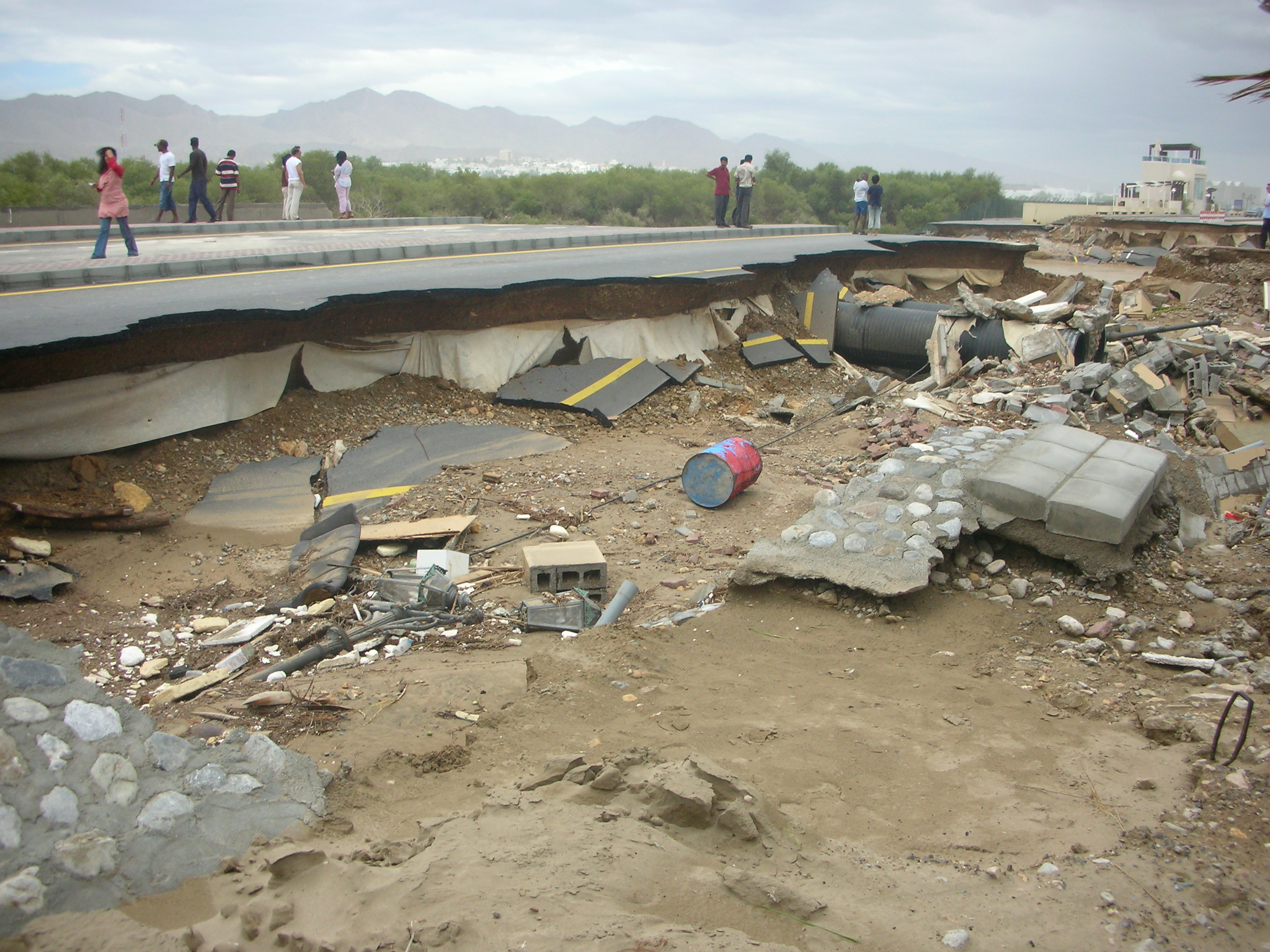 Photo of damages in Musacat, Oman, after the passage of Cyclone Gonu in 2007.